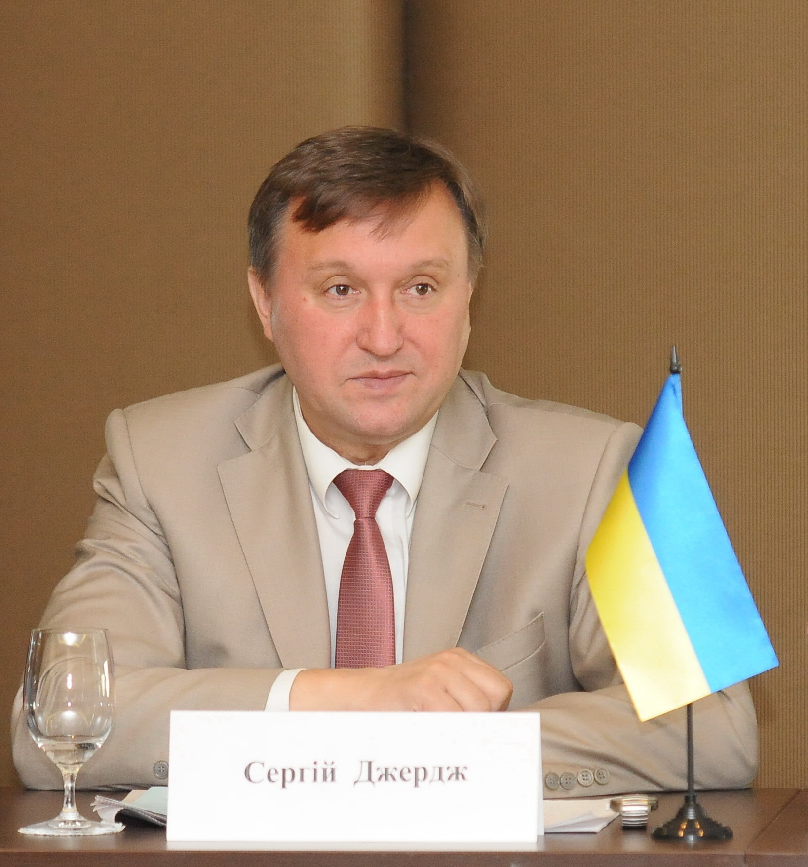 Serhiy Dzherdzh. The head of NATO – Ukraine Civic League, Lider of the Ukrainian Republican Party